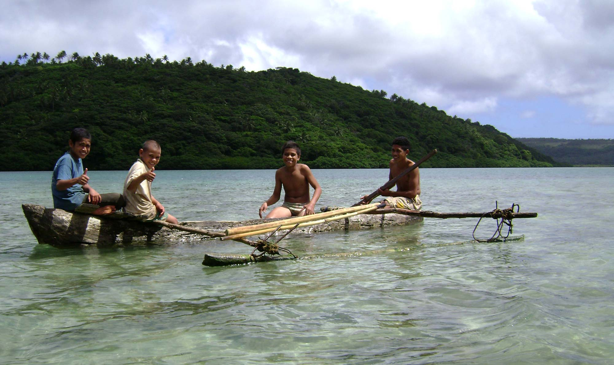 Traditional Tongan outrigger canoe (popao), still used nowadays; Vaipūua, Vavaʻu